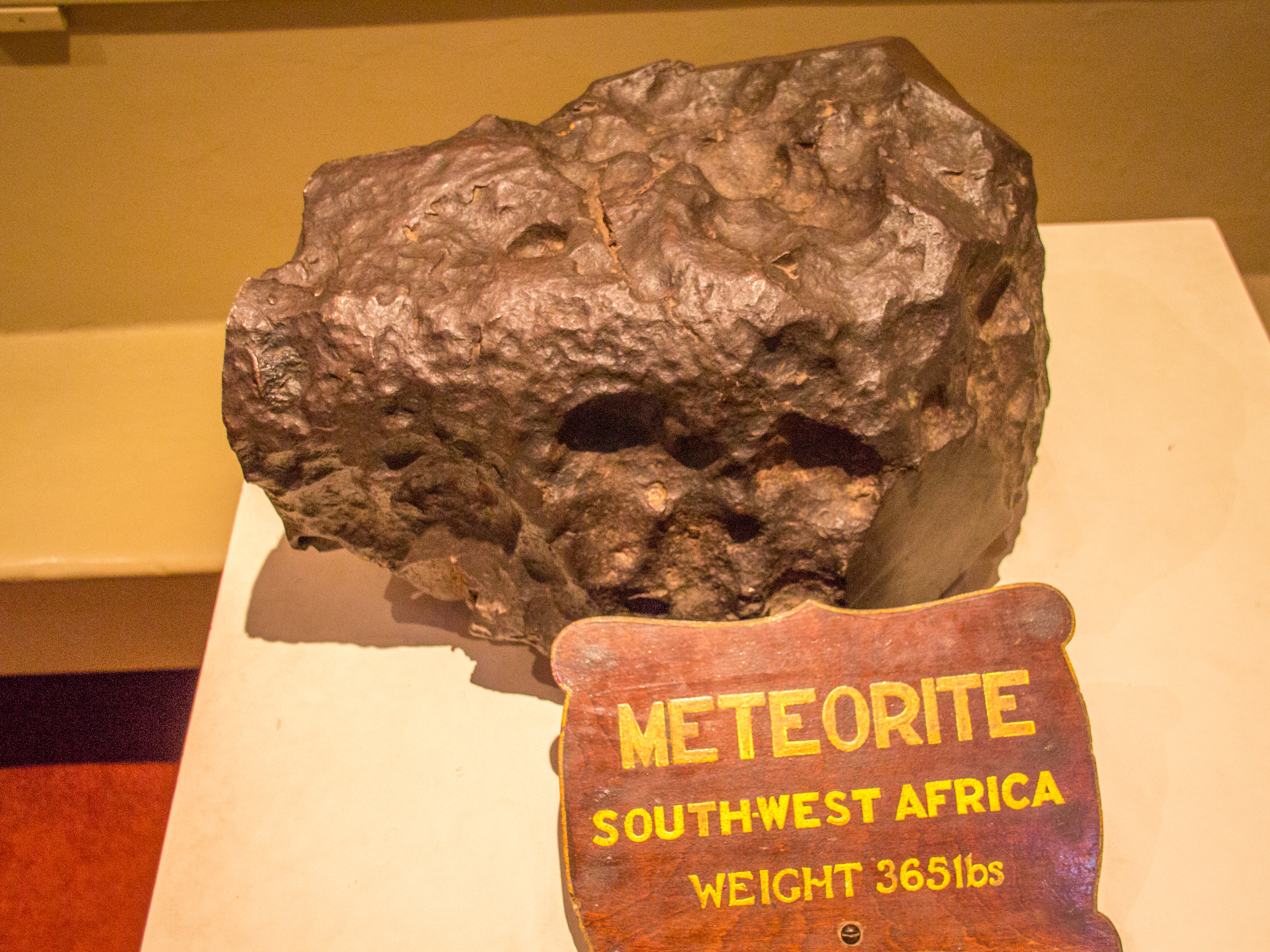 Inside Tatton Hall, Tatton Park, United Kingdom Hoba Meteorite. Found at Gibem, S.W.A, 3ft below the surface.